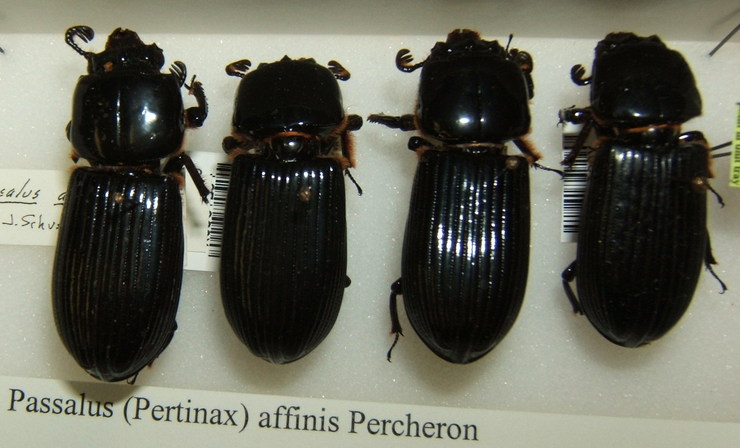 Passalus affinis adult taken by Shawn Hanrahan at the Texas A&M University Insect Collection in College Station, Texas.